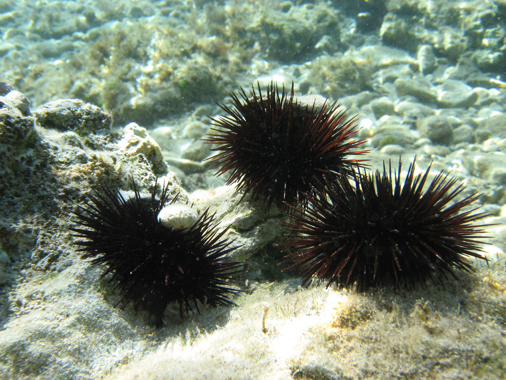 Sea Urchins in Greece